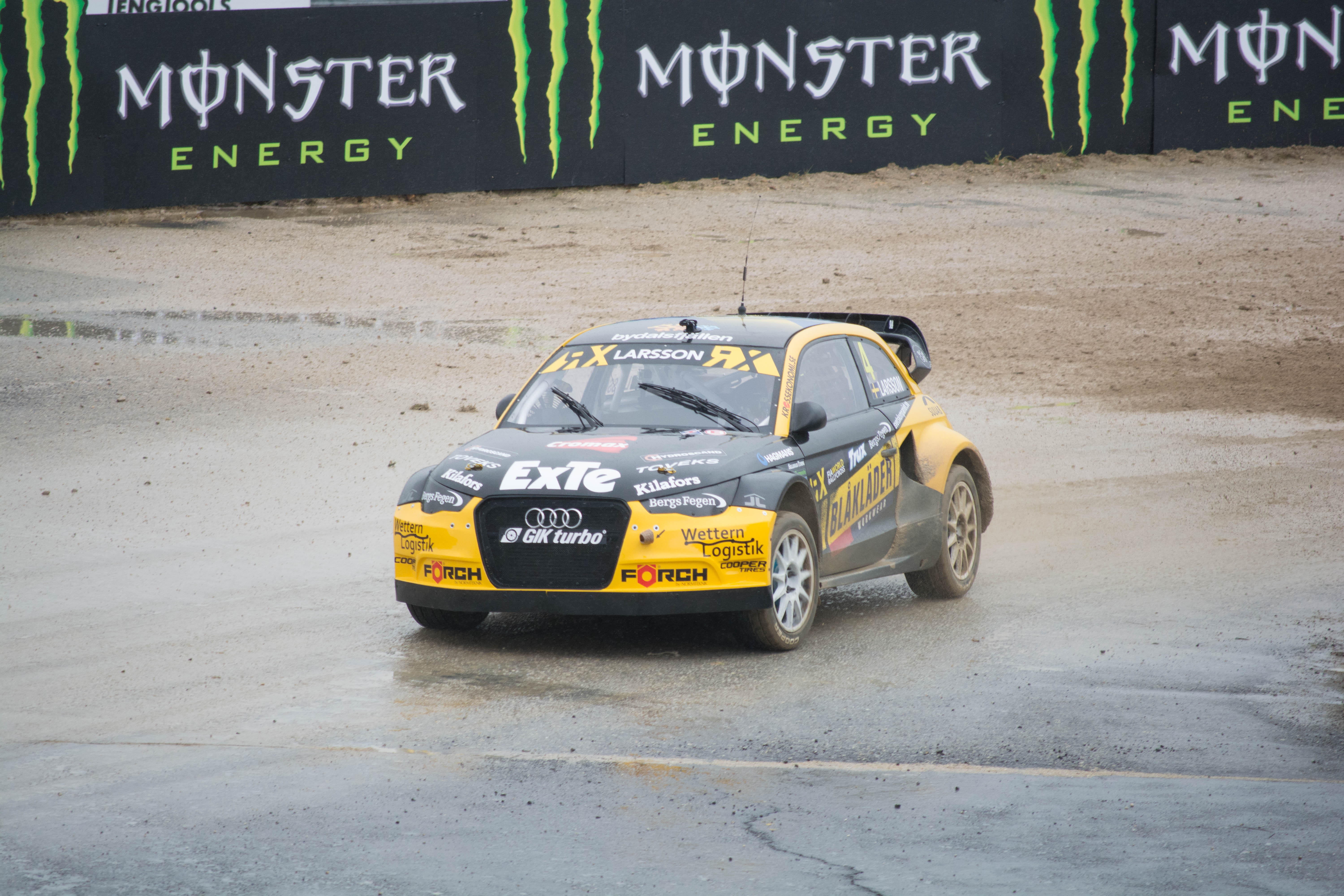 Portugal Montalegre 2016